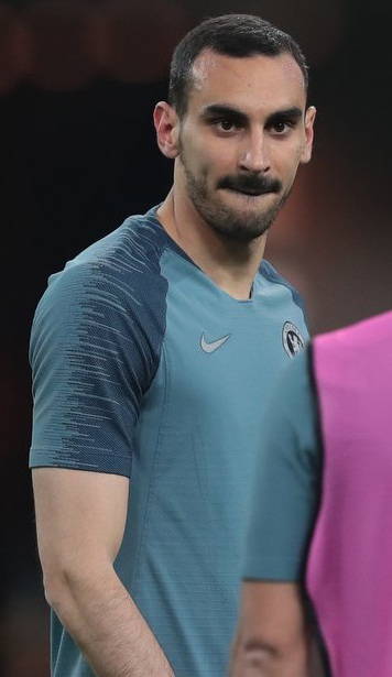 Italian footballer Davide Zappacosta on 28 May 2019 in Baku ahead of the 2019 Europa League final.